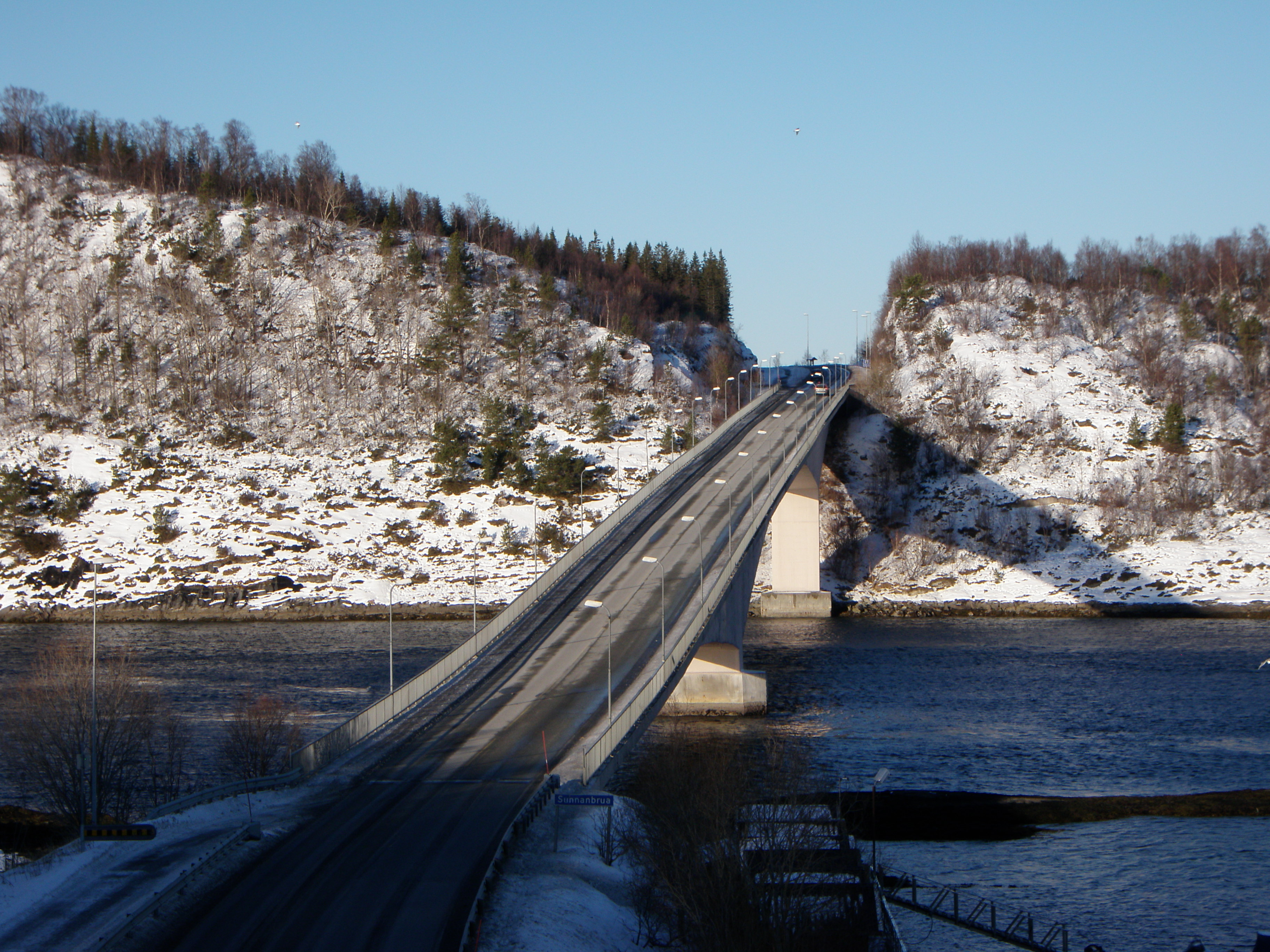 Overview of Sunnan Bridge in Bodø, Nordland, Norway.